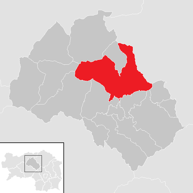 Geographic position of the municipality of Trofaiach within District Leoben